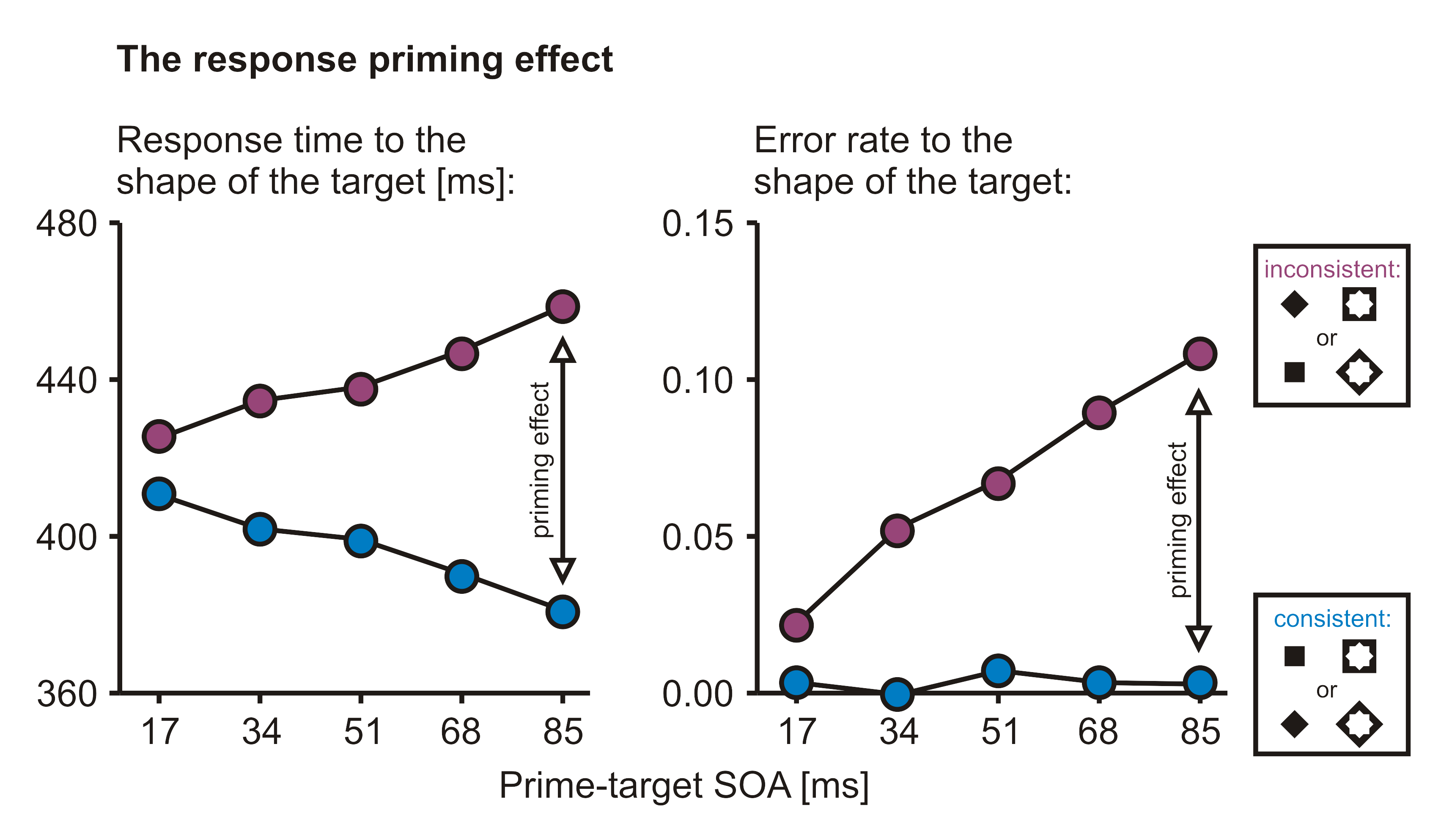 Respone priming effect